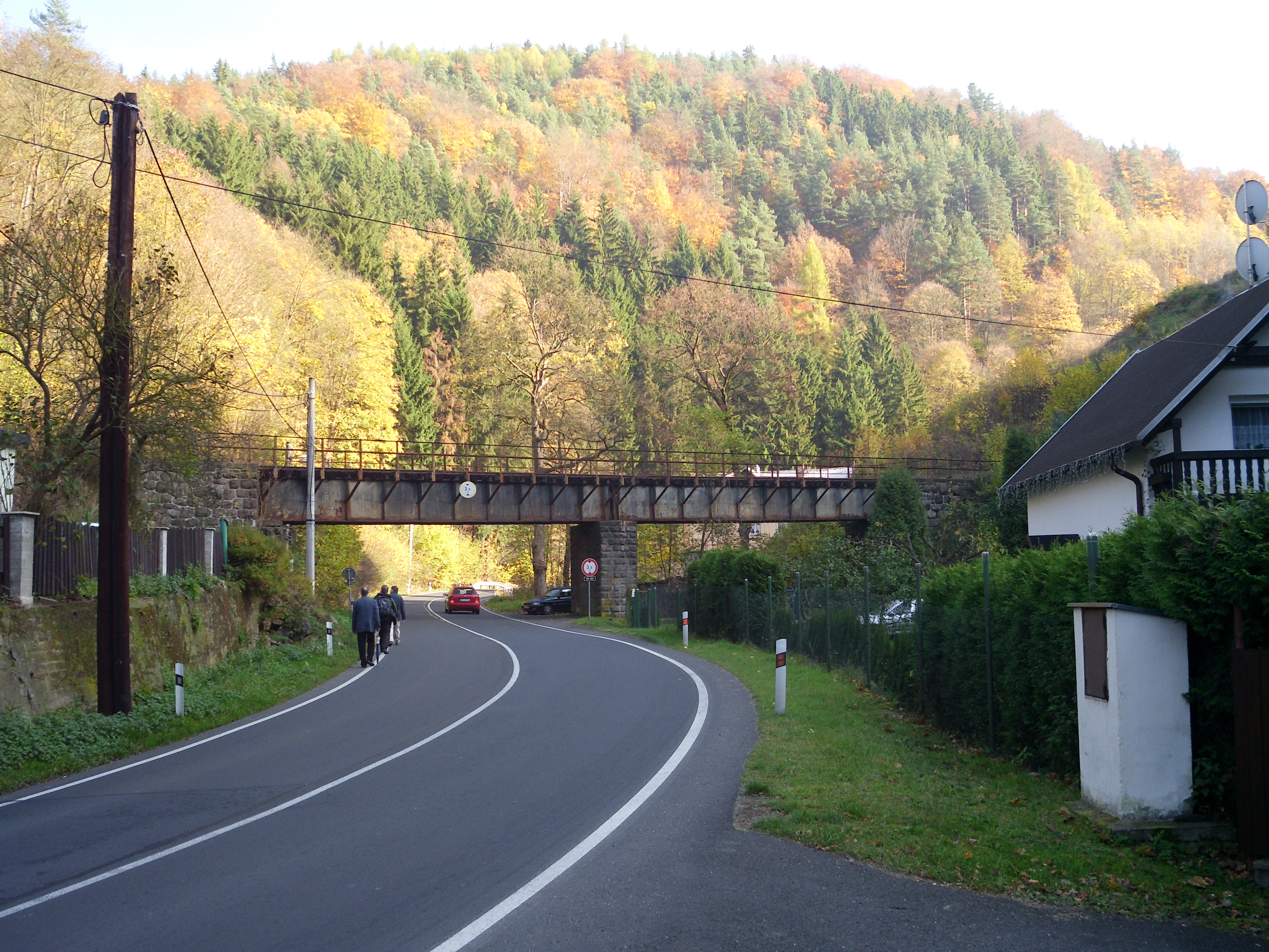 A bridge on a disused part of a railway line from Nové Sedlo u L. to Krásný Jez in Údolí.